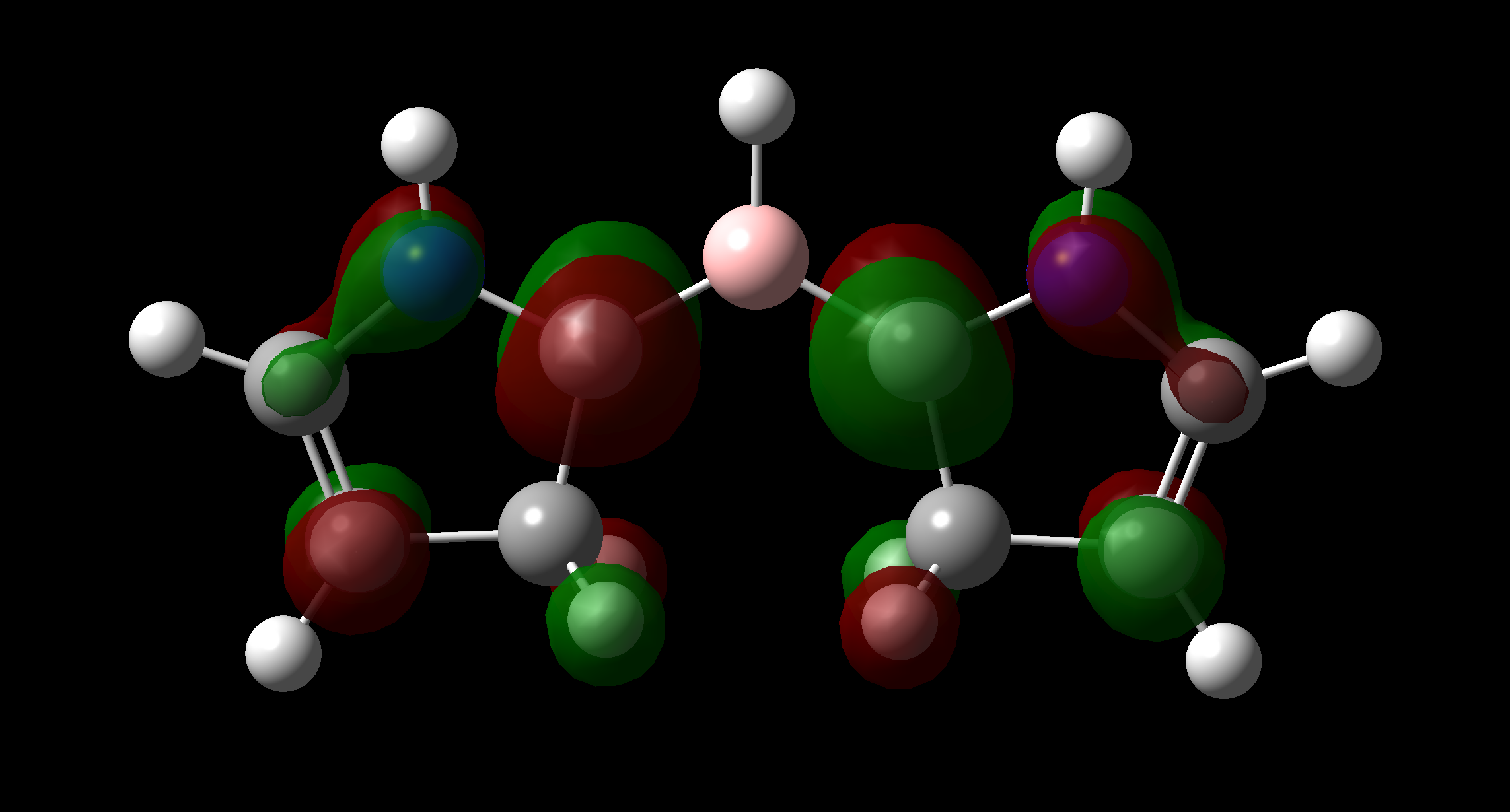 BisLB LUMO